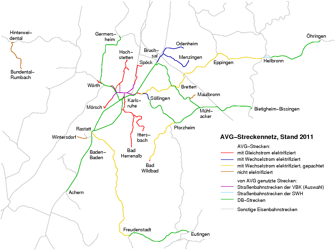 railway lines of the AVG, Karlsruhe in 2011